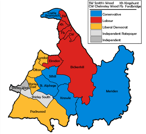 Ward map of Solihull Council with political colouring for the 1994 election.